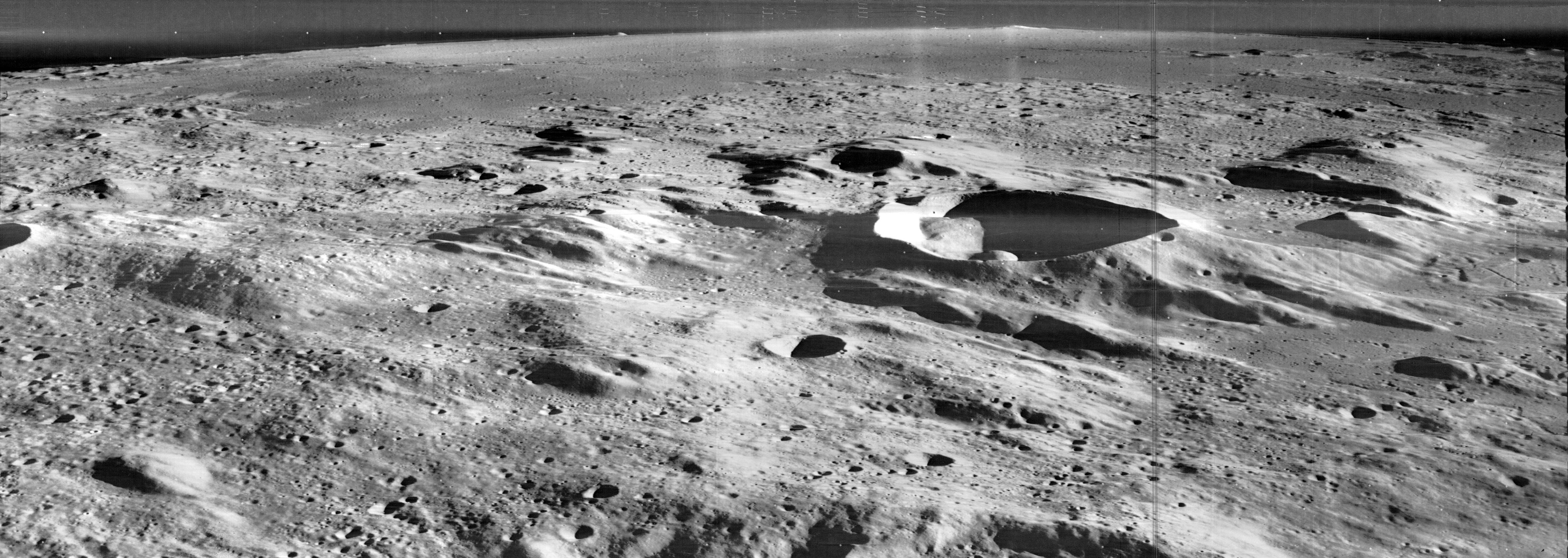 Oblique view of linear hills often called Imbrium Sculpture, with the crater Ukert right of center, and Mare Vaporum in the background, on the moon, facing northeast.